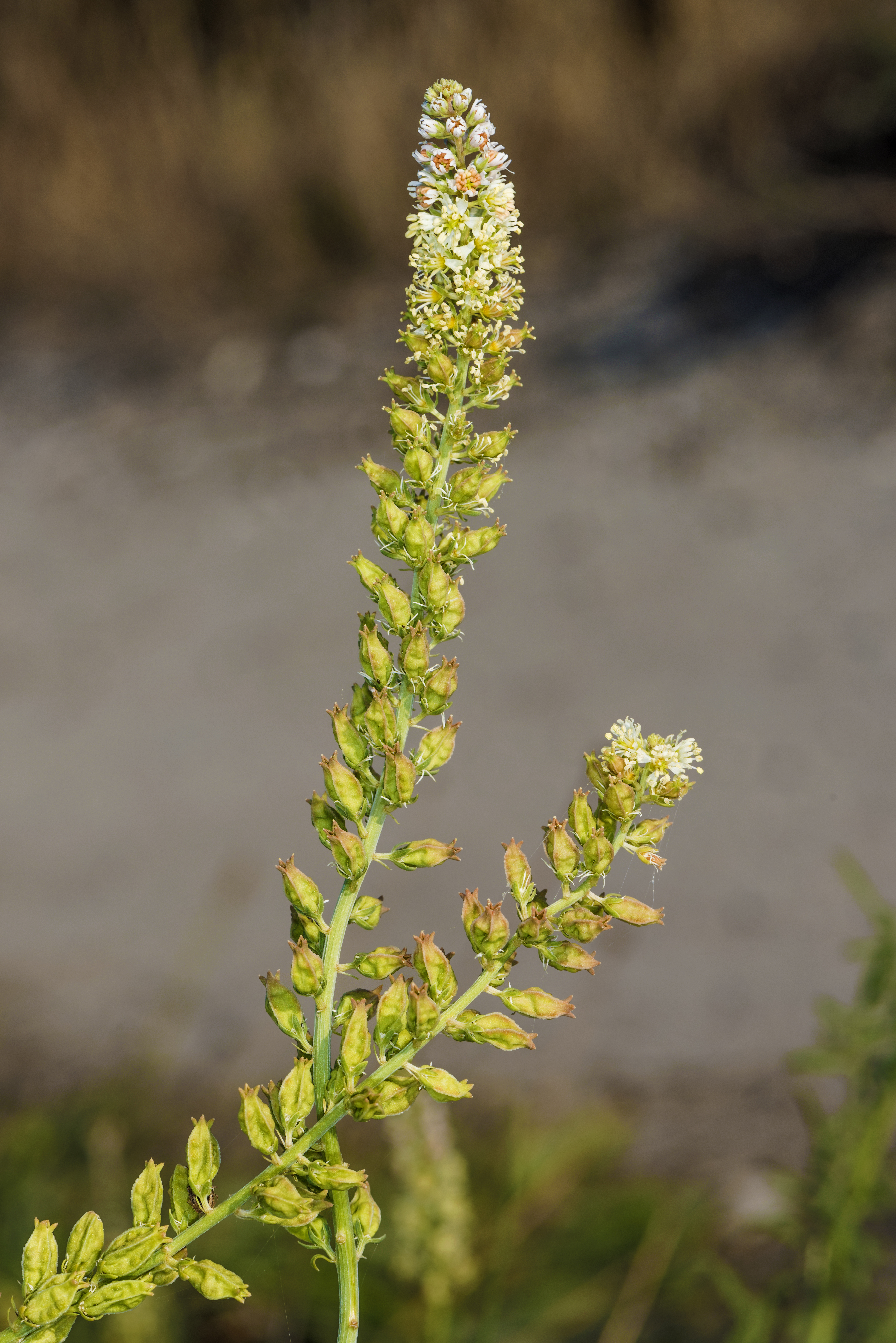 Reseda alba (White mignonette). Salins de Frontignan. Frontignan, Hérault, France.